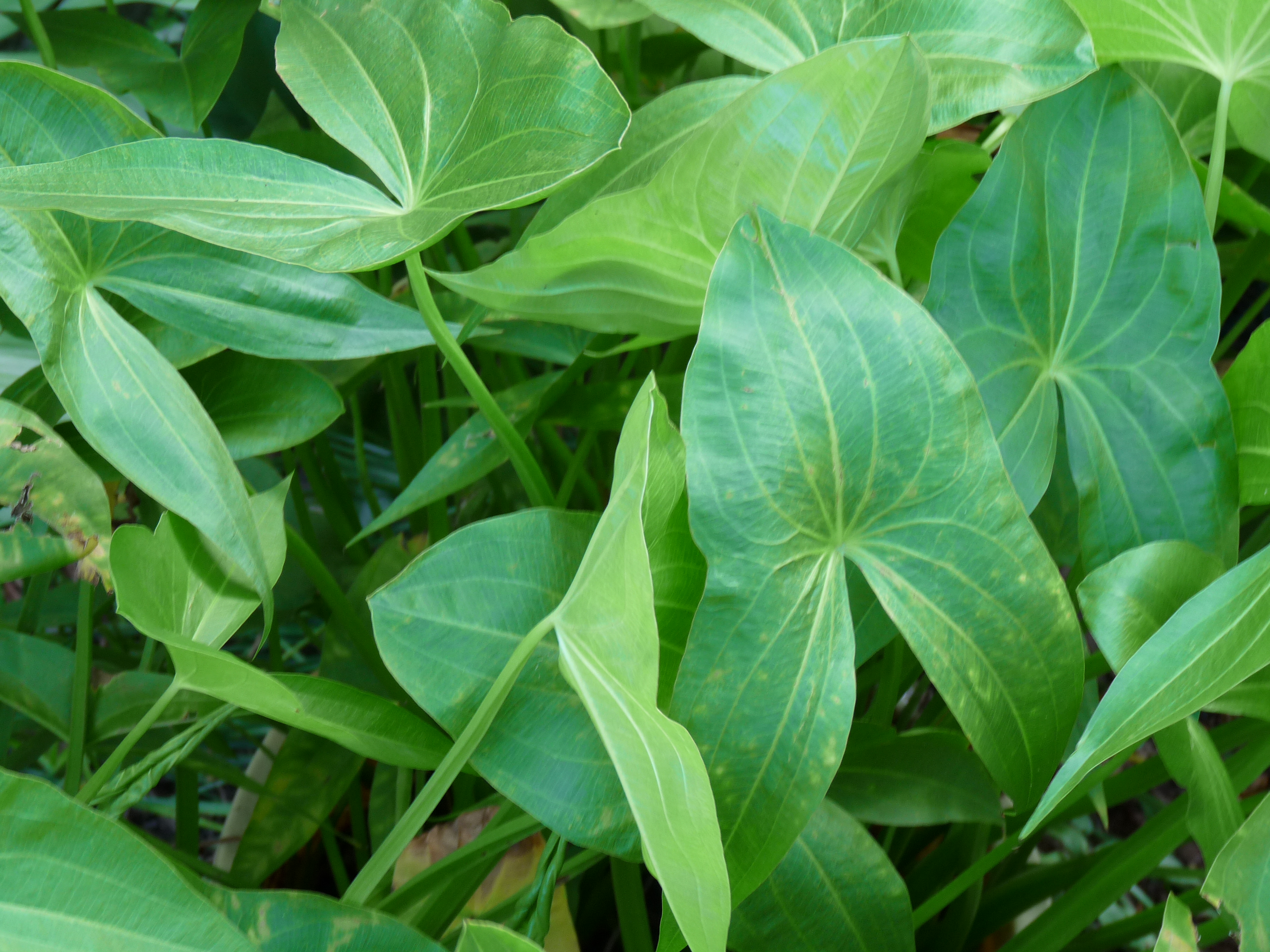 Leaves of Sagittaria trifolia var.edulis